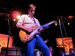 A photo of John Neff playing guitar